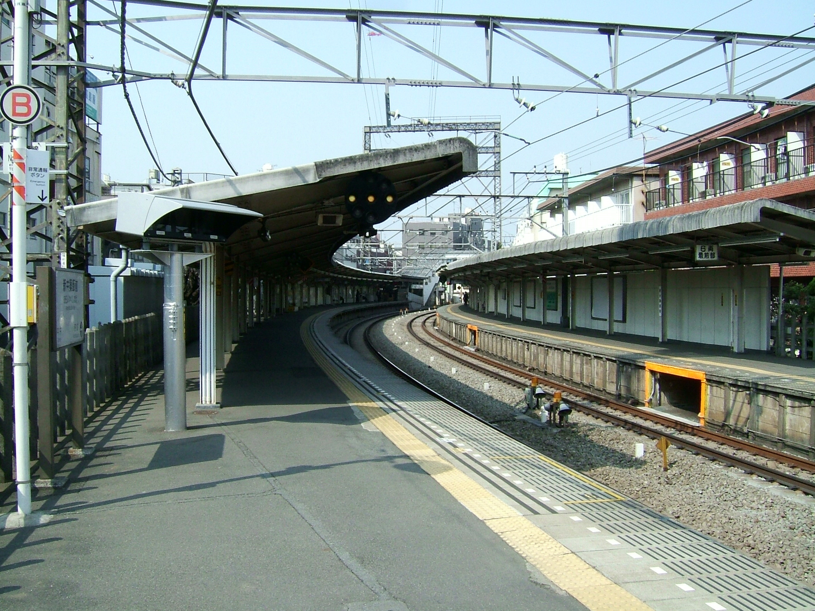 Araiyakushi-mae Station platform (Seibu Shinjuku Line)